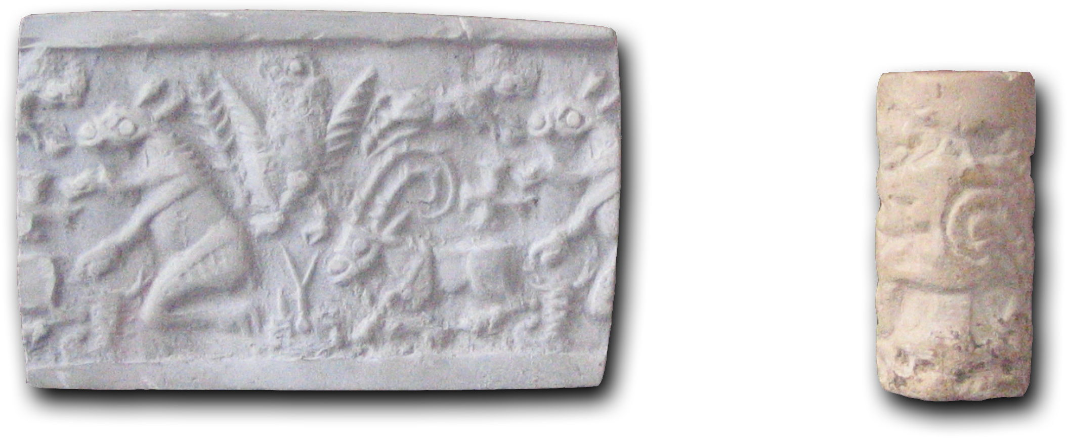 Seal, Suse, 3rd mil BC. National Museum of Iran.